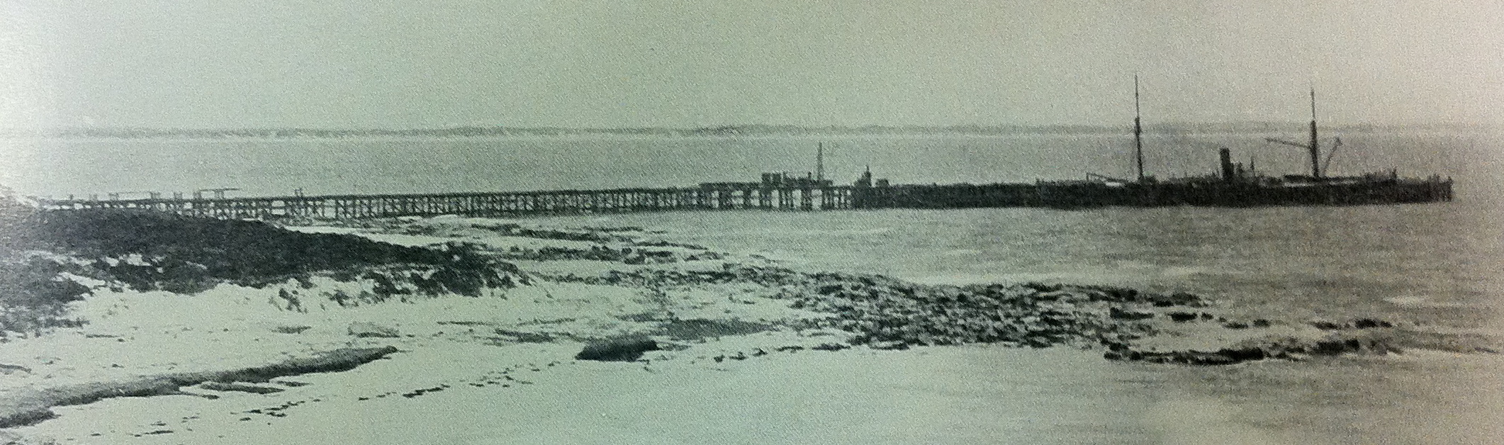 Copied from - Millars' Karri & Jarrah Company (1902) Limited. The Company. Retrieved on 15 December 2016. - M C Davies constructed Flinders Bay Jetty